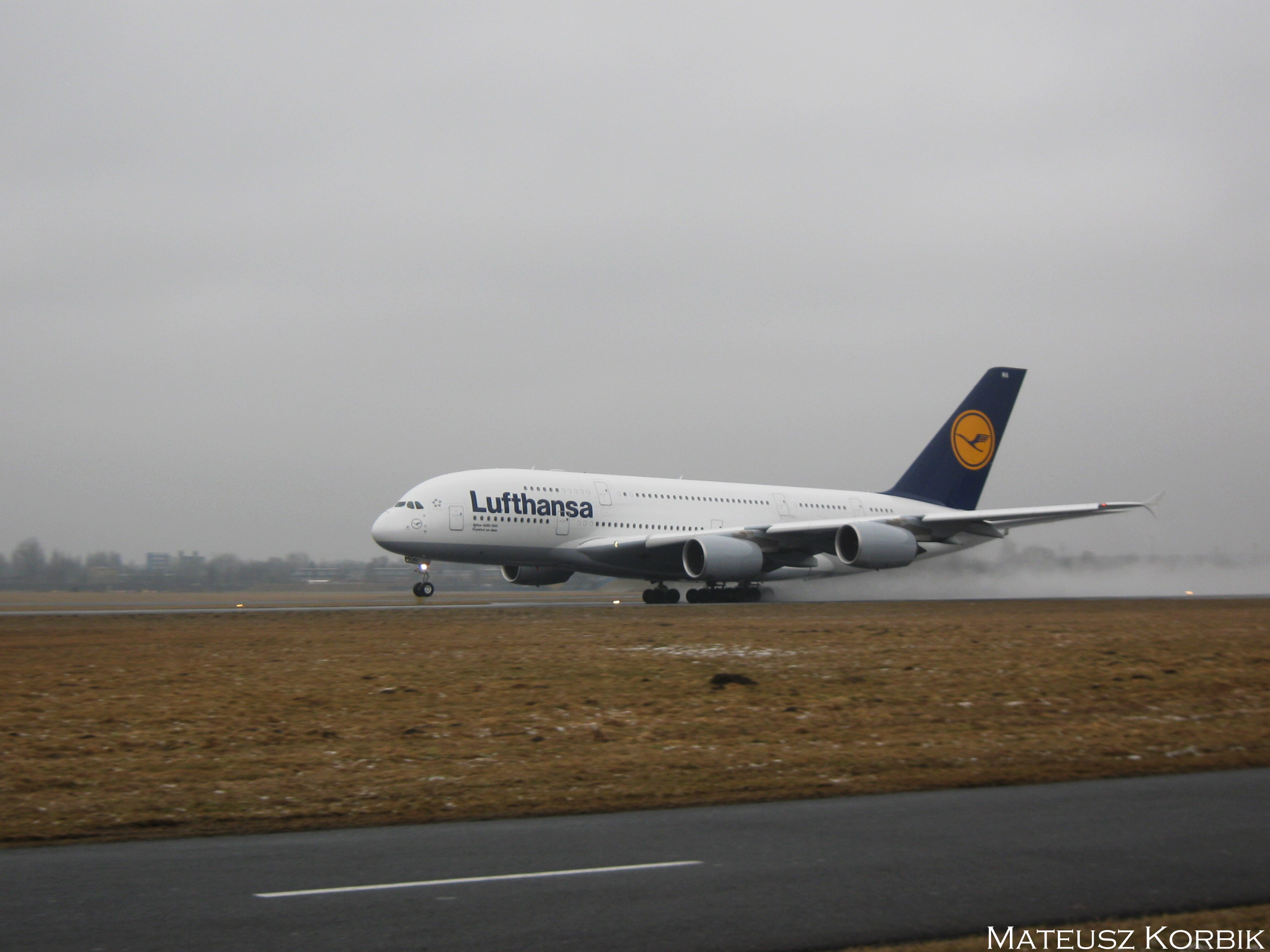 Airbus A380 Take Off Warsaw